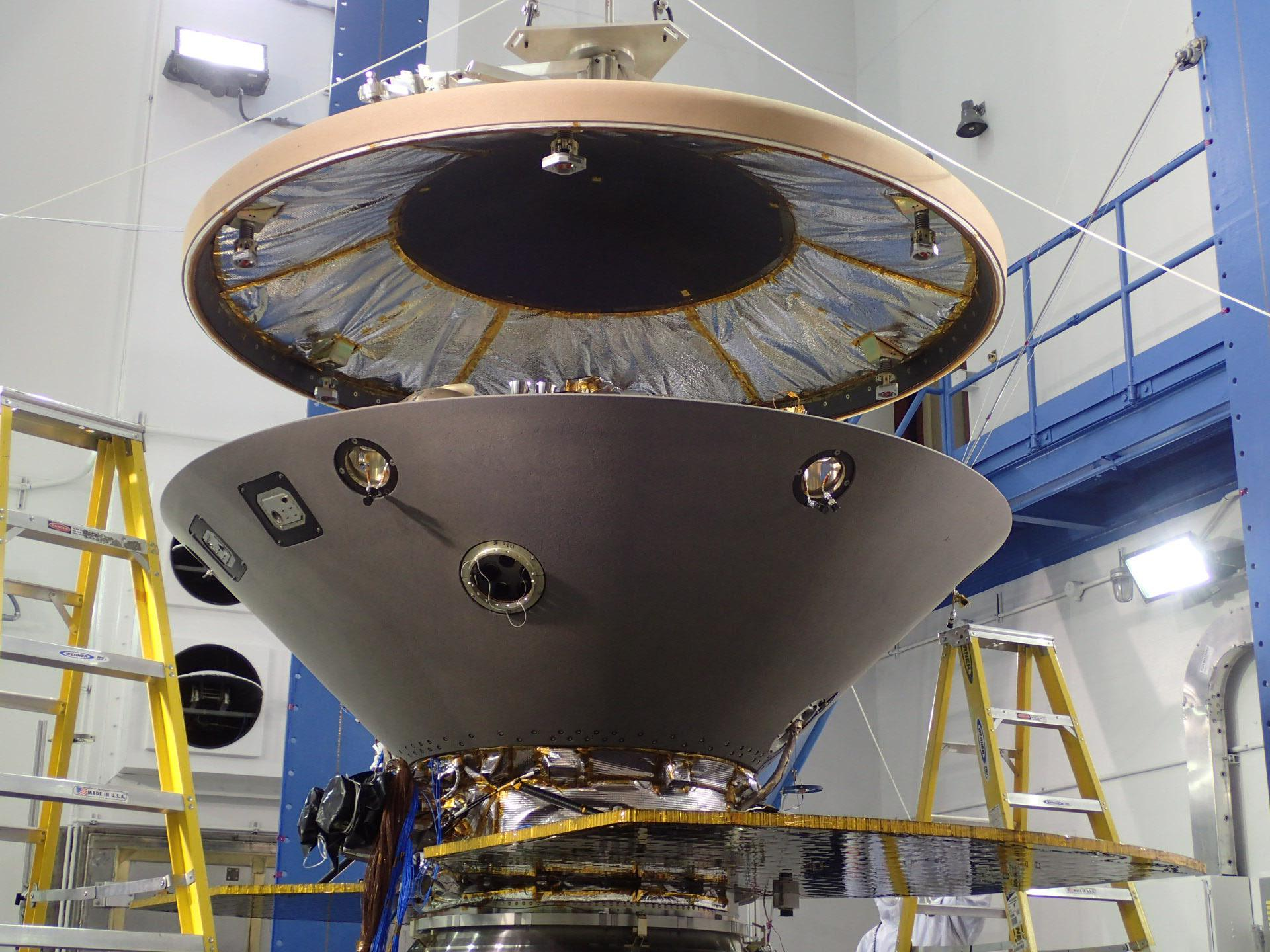 The heat shield is suspended above the rest of the InSight spacecraft in this image taken July 13, 2015, in a spacecraft assembly clean room at Lockheed Martin Space Systems, Denver. The gray cone is the back shell, which together with the heat shield forms a protective aeroshell around the stowed InSight lander. The photo was taken during preparation for vibration testing of the spacecraft. InSight, for Interior Exploration Using Seismic Investigations, Geodesy and Heat Transport, is scheduled for launch in March 2016 and landing in September 2016. It will study the deep interior of Mars to advance understanding of the early history of all rocky planets, including Earth.